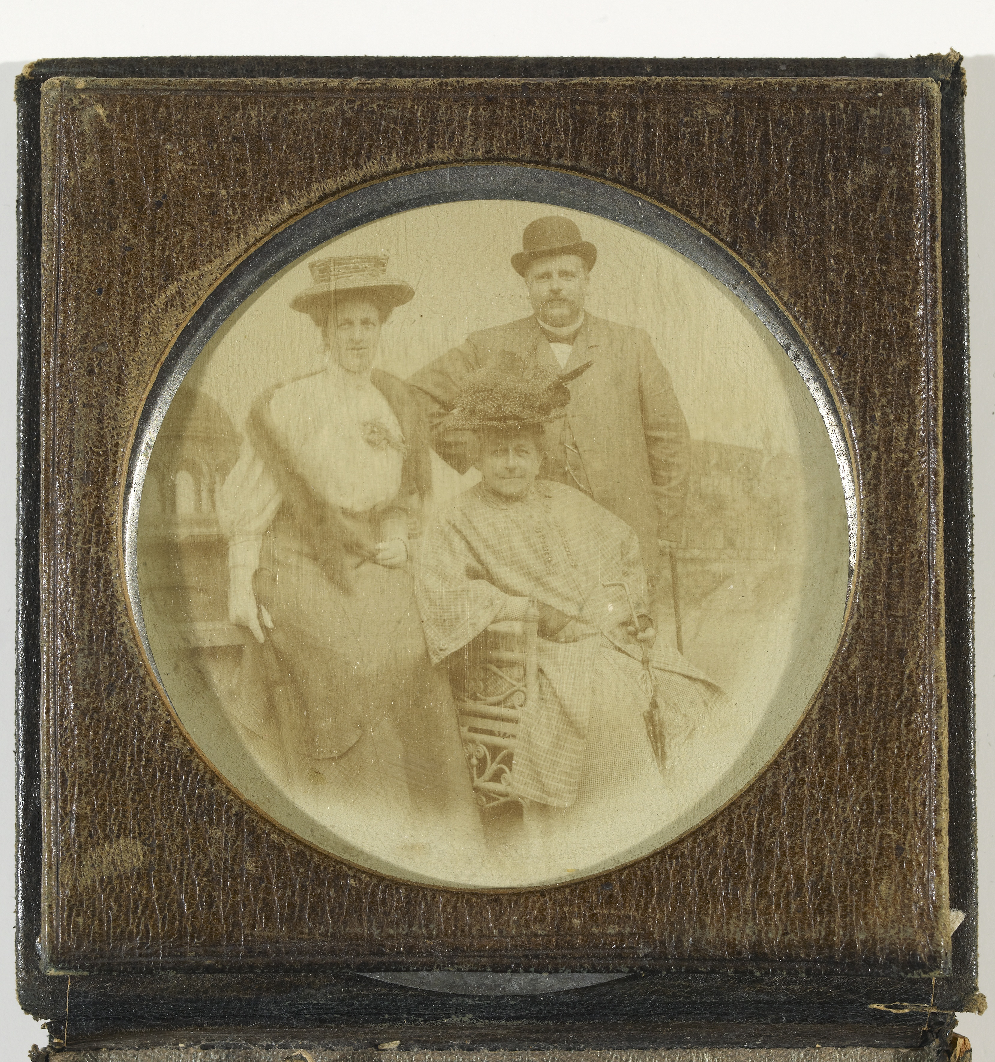 Photograph of Lisi Wahl (1878–1960) and two unknown persons in Paris.